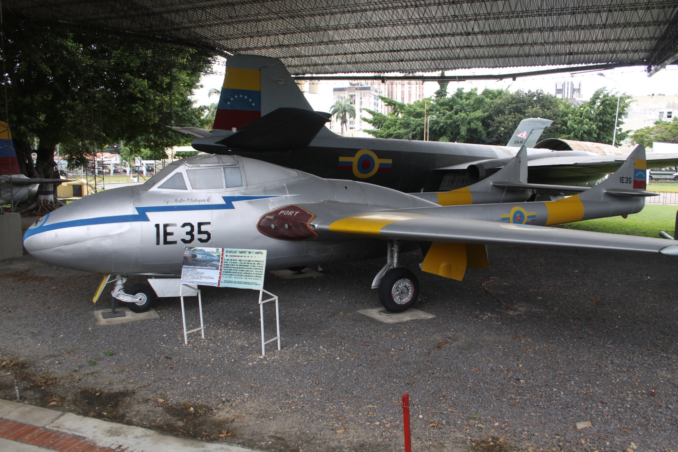 At Museo Aeronáutico de Maracay